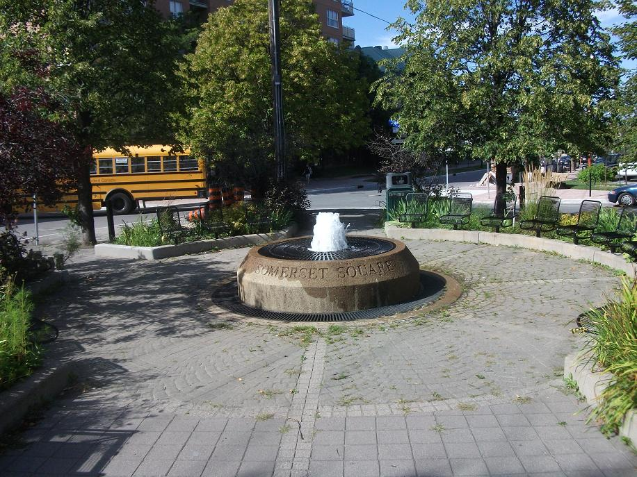 Somerset Square at the western end of Somerset Street West, Ottawa, Ontario, Canada